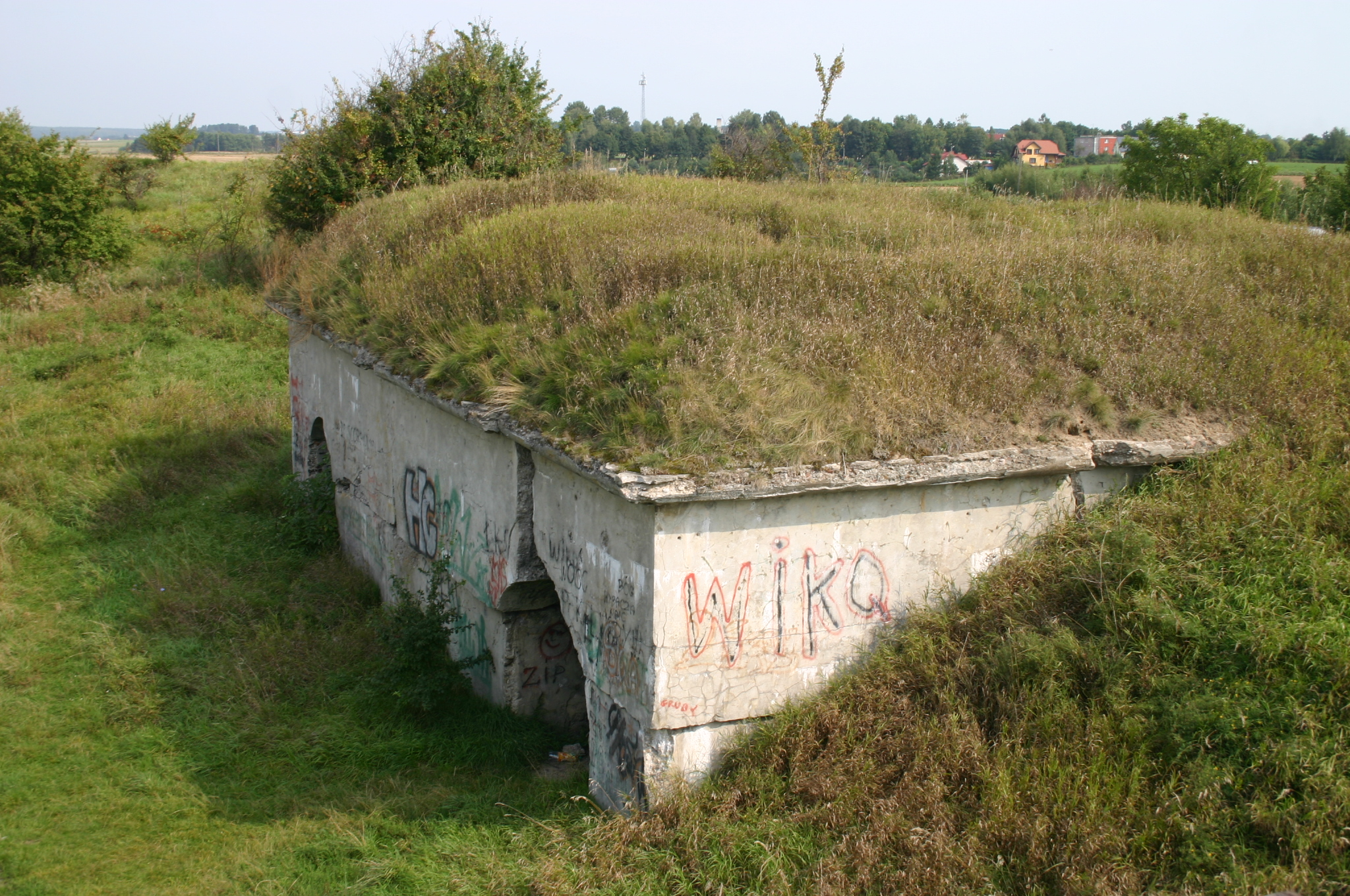 Fort III in Piątnica, part of Lomza Fortress (1887-1889, 1901-1909, 1939)